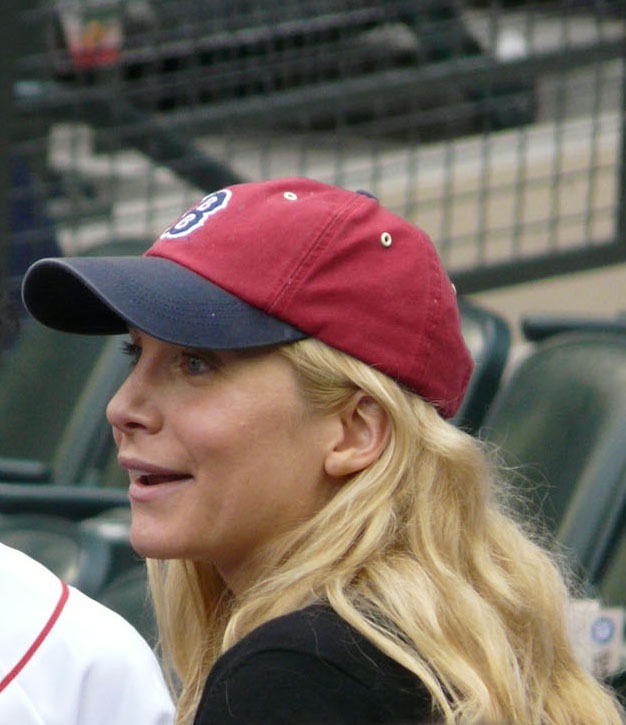 May 28, 2008. Safeco Field, Seattle, WA. Spotted actress Elizabeth Mitchell at the Seattle Mariners/Boston Red Sox game.